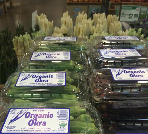 This photo shows the green and red varieties of okra, side by side. How cool is that?